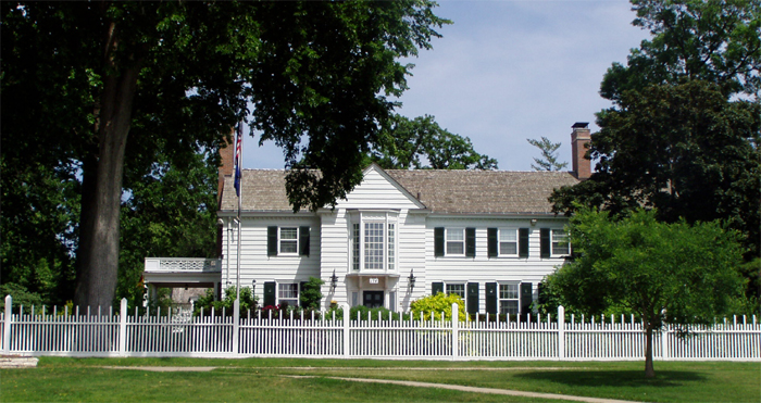 University of Minnesota's office of the president residence, 2006